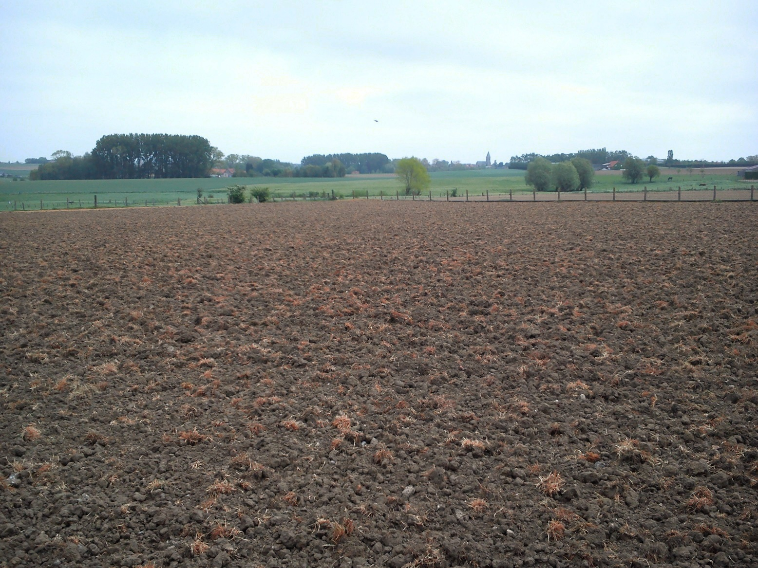 Photo taken from a position approx 50°53'19.1"N 3°00'01.1"E outside the new visitor centre and exhibition at Tyne Cot Cemetery, facing approx north-east, towards Crest Farm Canadian Memorial and Passendale